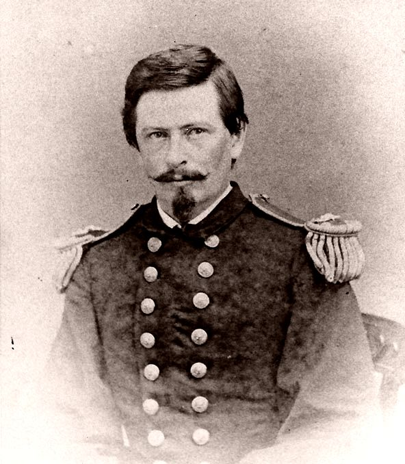 Photograph of Lieutenant Commander Alexander S. MacKenzie (1842-1867)